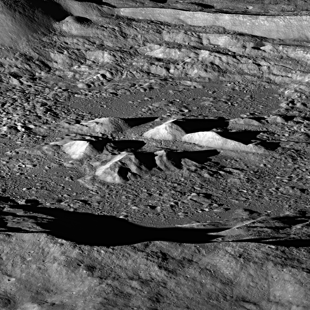 Central peaks of Hayn crater, rising 1.5 km above the crater floor. Image is approximately 32 km across, LROC NAC M1105158497LR [NASA/GSFC/Arizona State University].